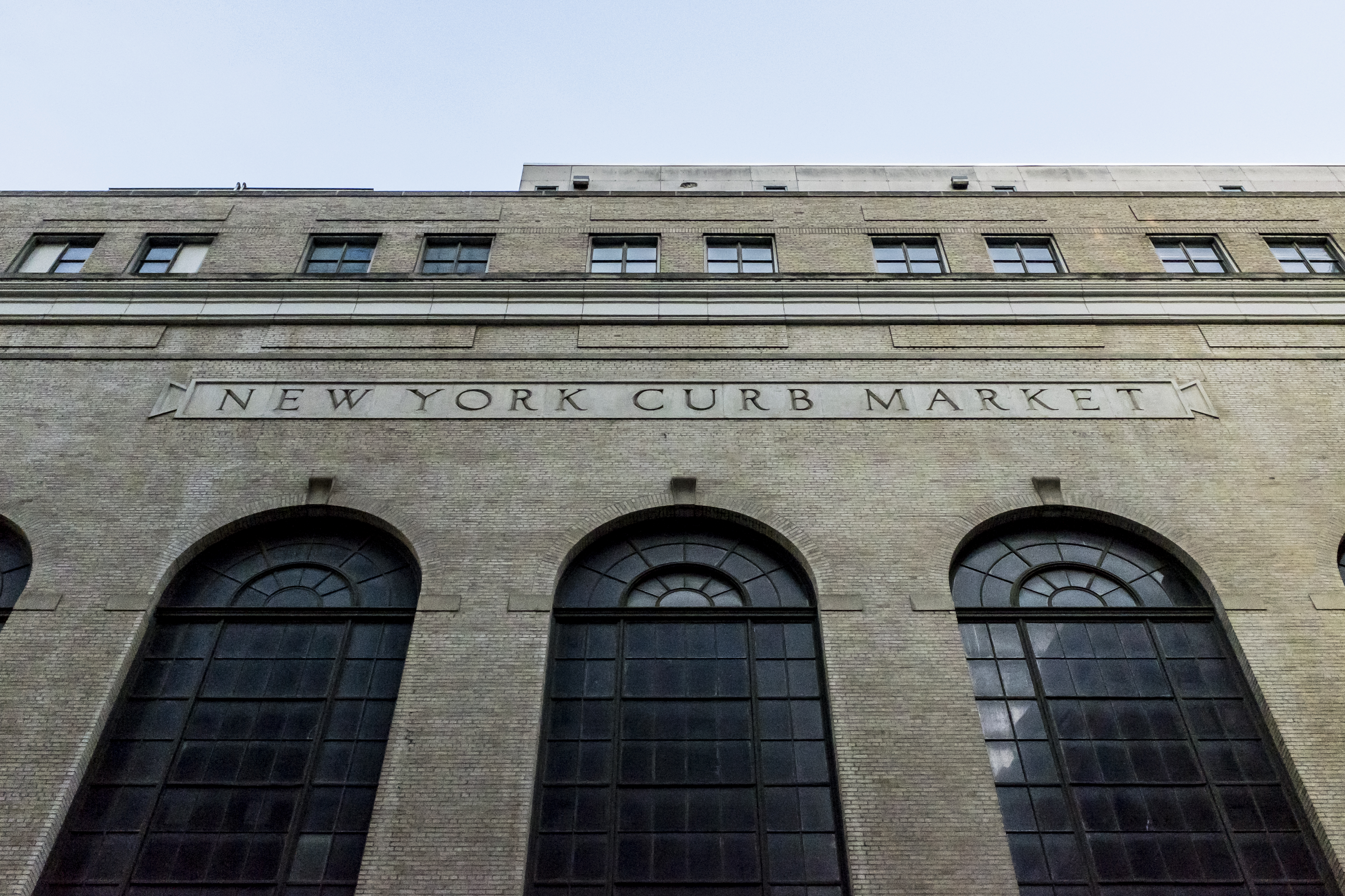 Closed ages ago, the building lingers